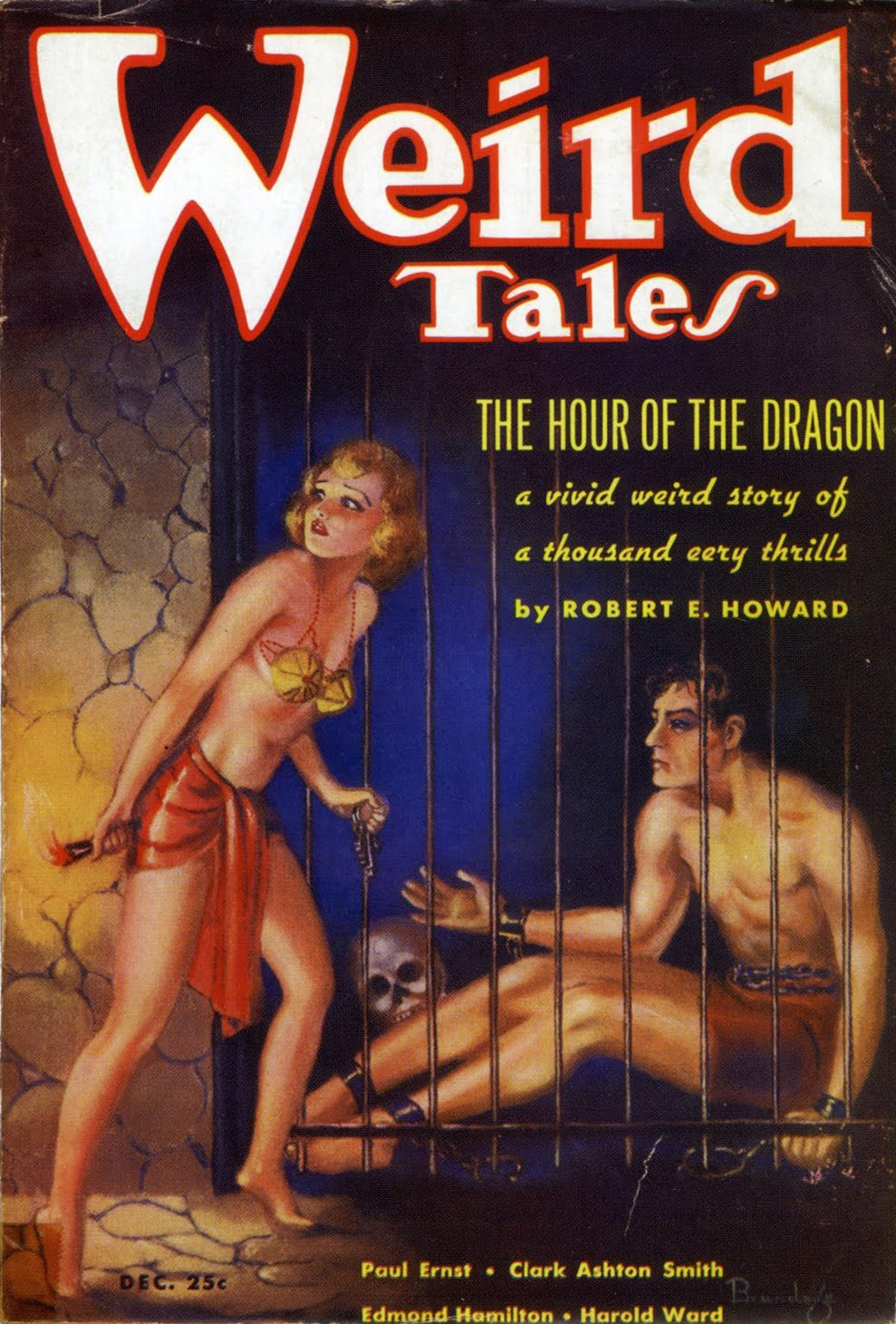 Cover of Weird Tales (December 1935): The feature story is Robert E. Howard's "The Hour of the Dragon".